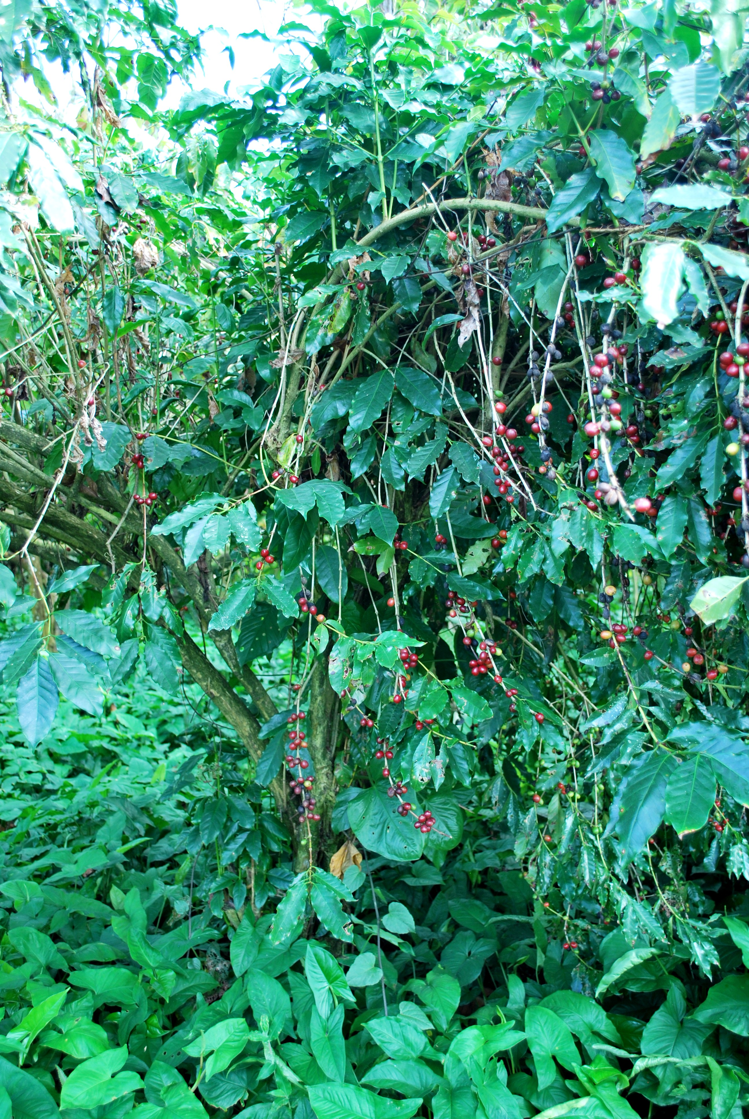 Coffee plant at La Chonita Hacienda in Tabasco, Mexico